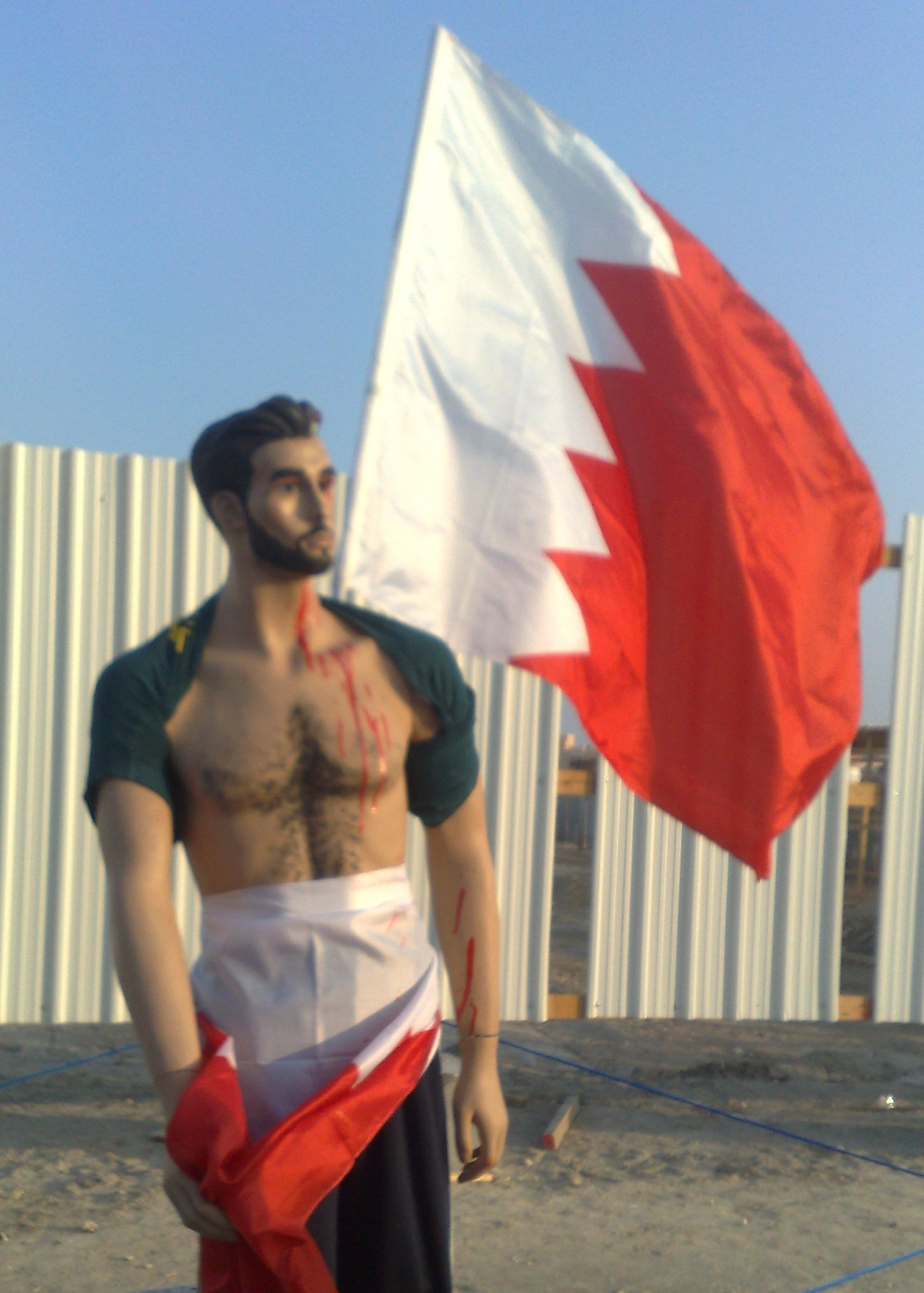 A memorial for Abdulredha Buhmaid put at a route of a march in Salmabad, Bahrain.